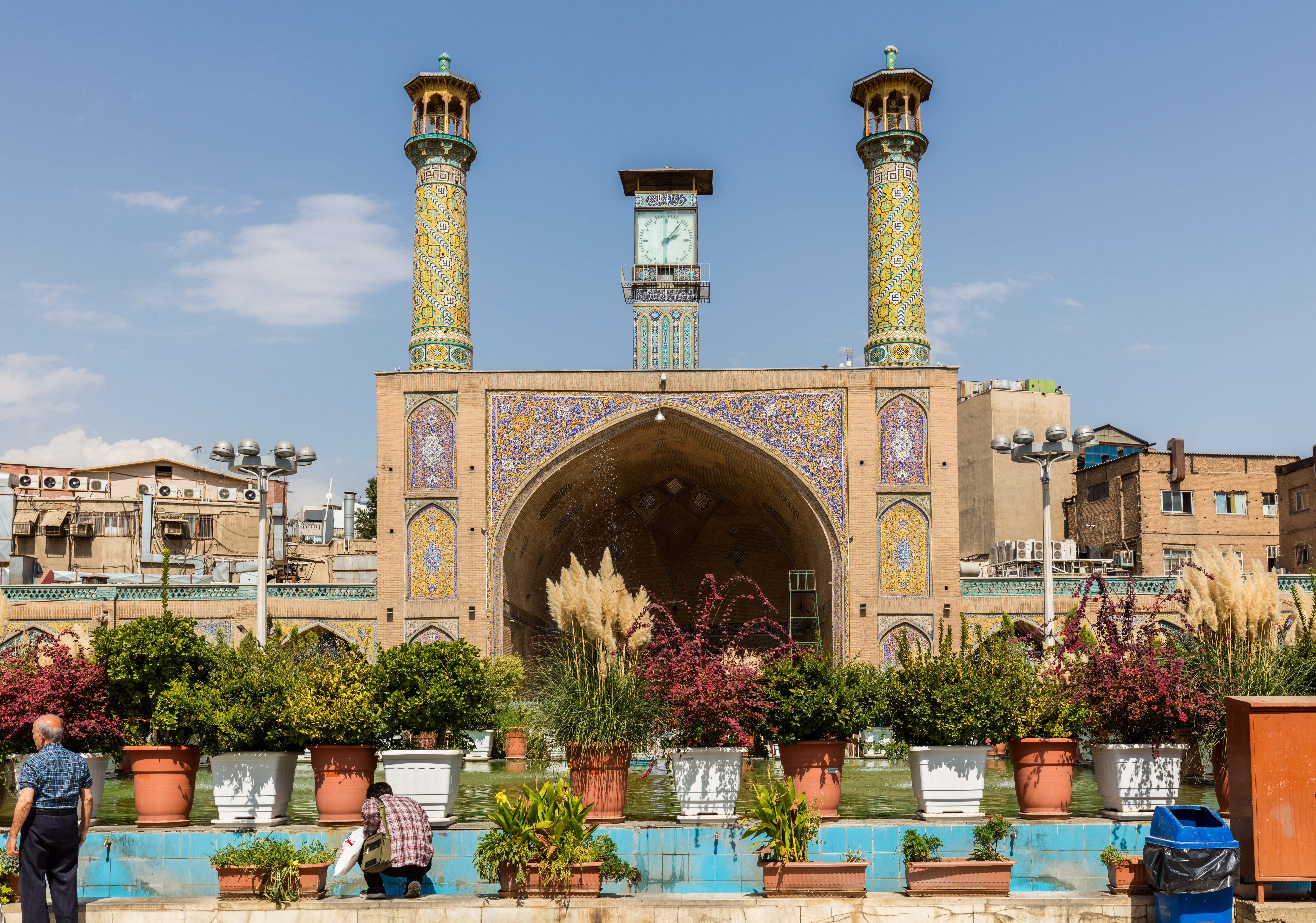 Shah mosque, Tehran, Iran